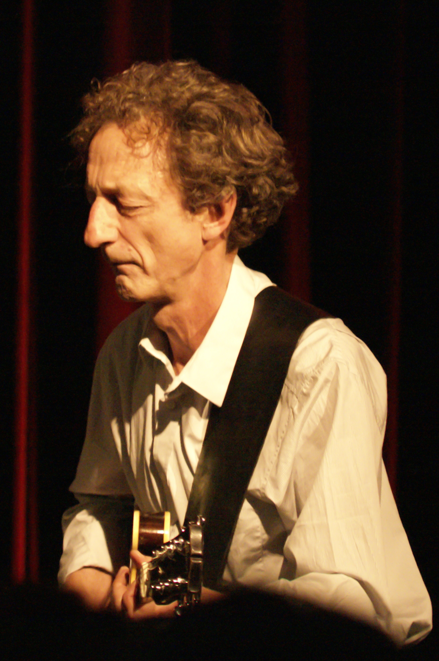 René „Schifer“ Schafer, member of Swiss band Stiller Has.